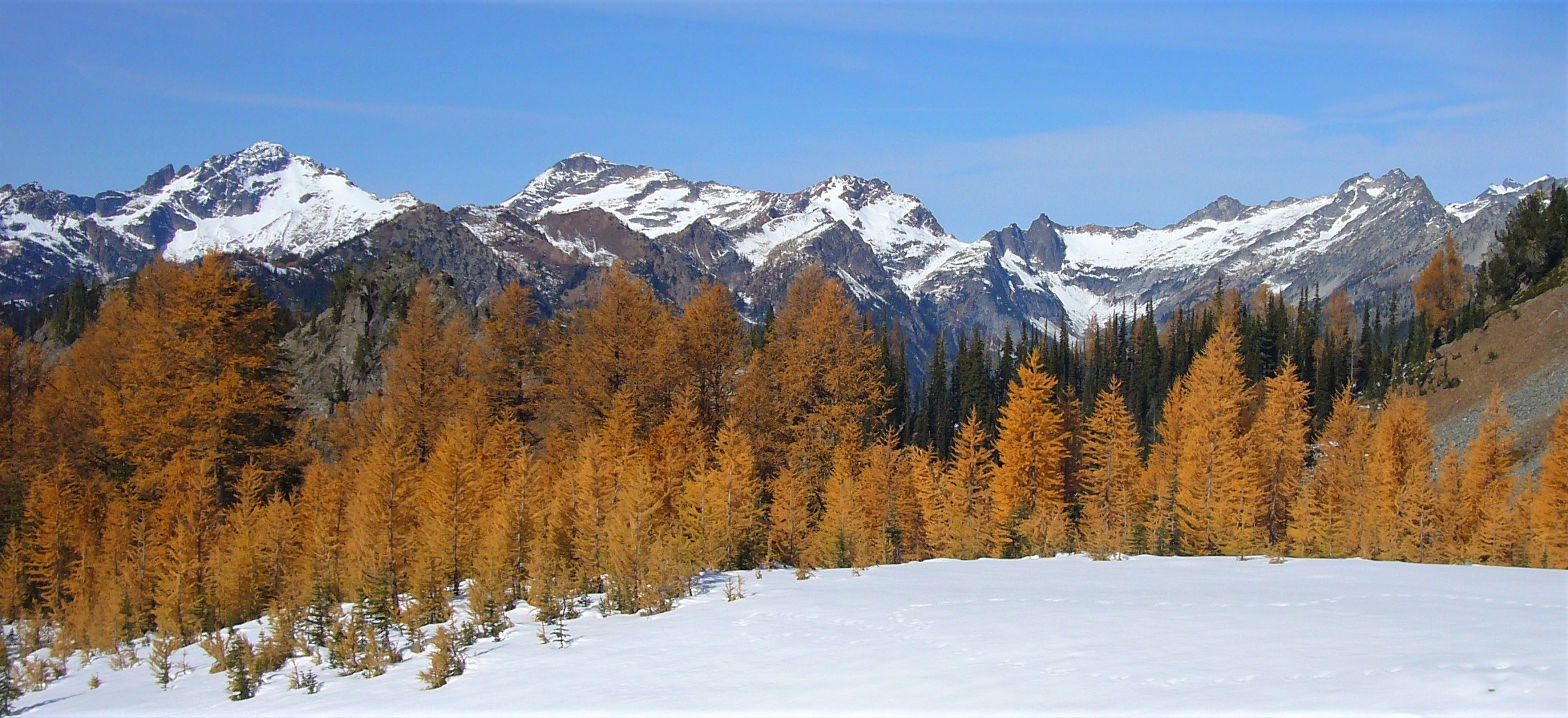 Fortress, Chiwawa, and Dumbell mountains beyond the golden larches.